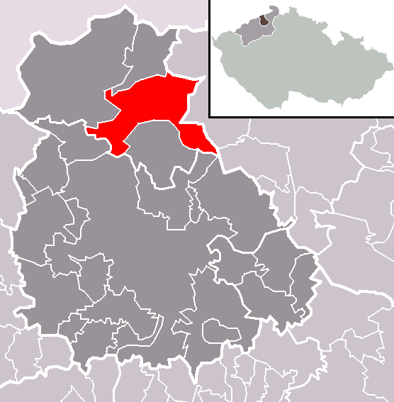 Location of Libouchec municipality within Ústí nad Labem District and administrative area of Ústí nad Labem as a Municipality with Extended Competence.